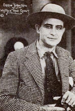 Still from the American drama film Whither Thou Goest (1917) with Orrin Johnson (1865–1943), on page 9 of the November 24, 1917 Exhibitors Herald.